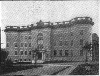 Worcester Club House, in Worcester, Massachusetts. Architect, Josephine Wright Chapman, of Boston. The club was founded in 1880.